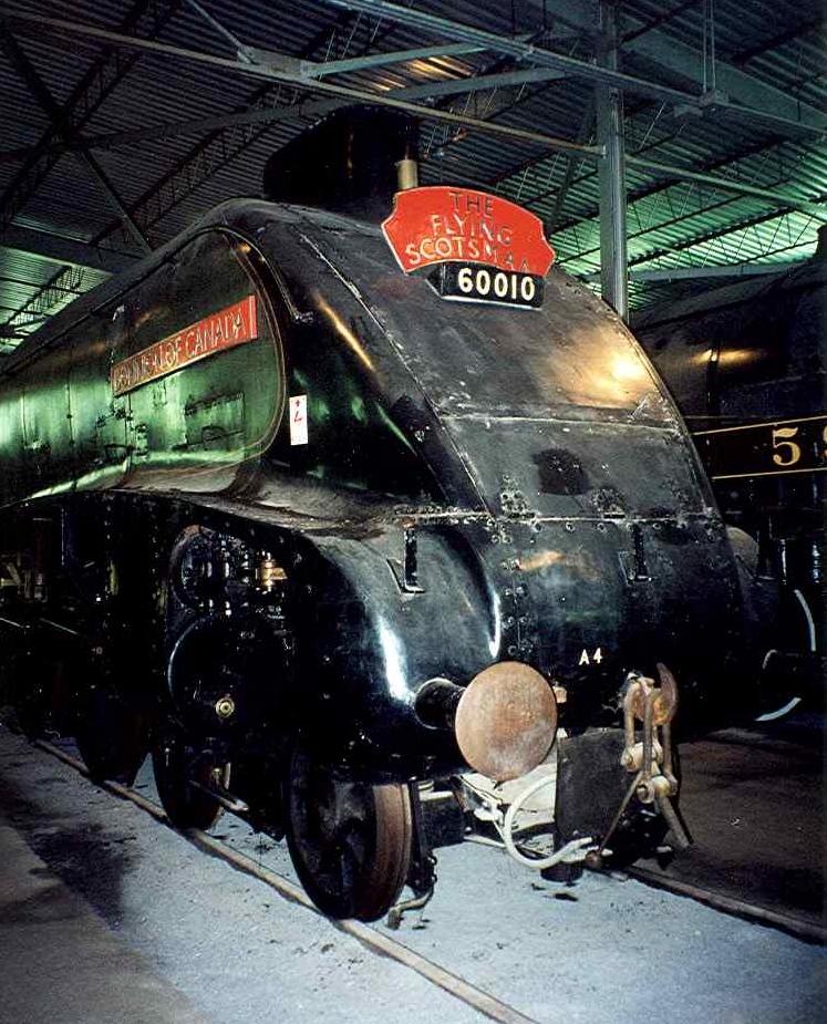 The Dominion of Canada A4 class LNER steam locomotive at the Canadian Railway Museum in Saint-Constant, Quebec